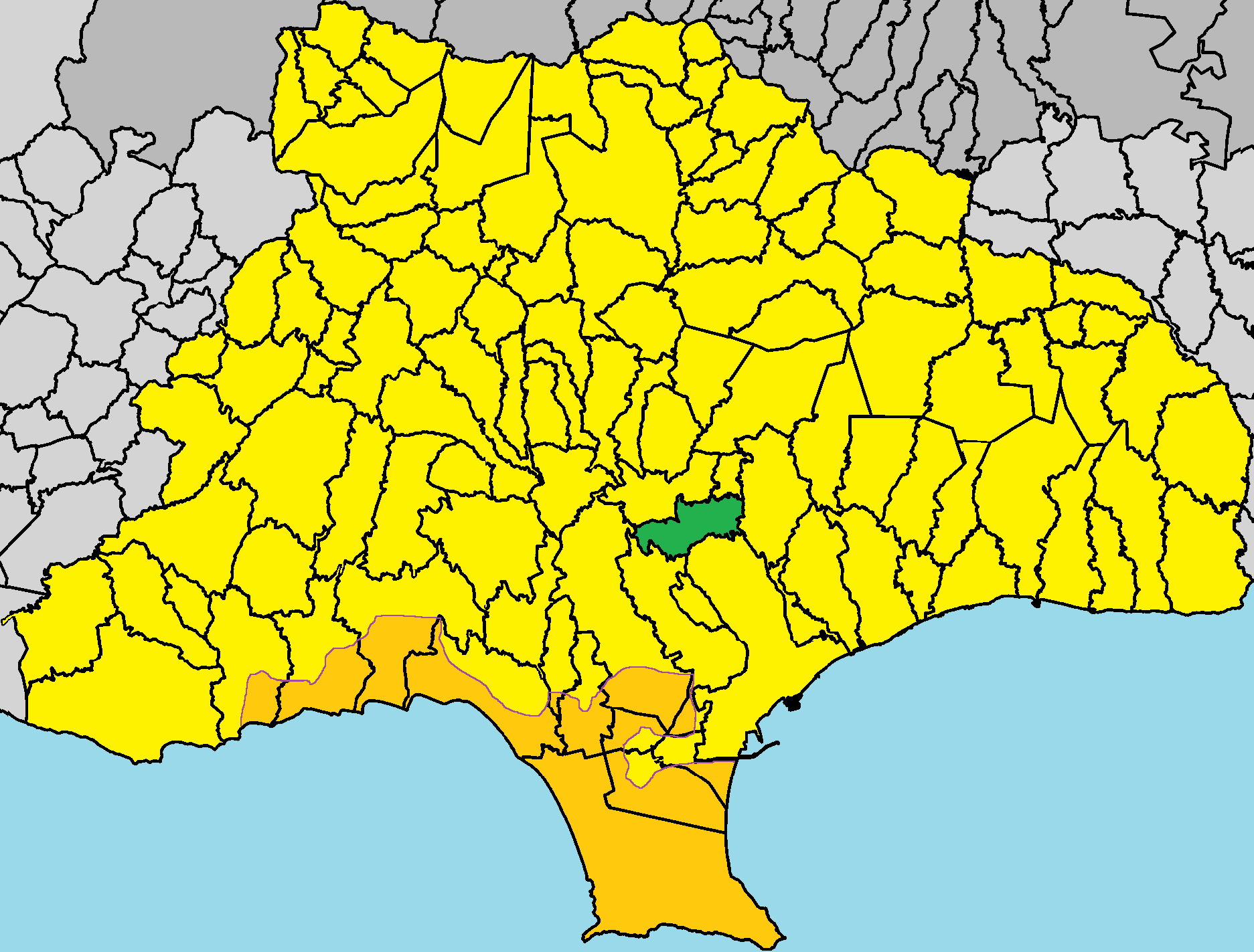 Palodeia in Limassol District.